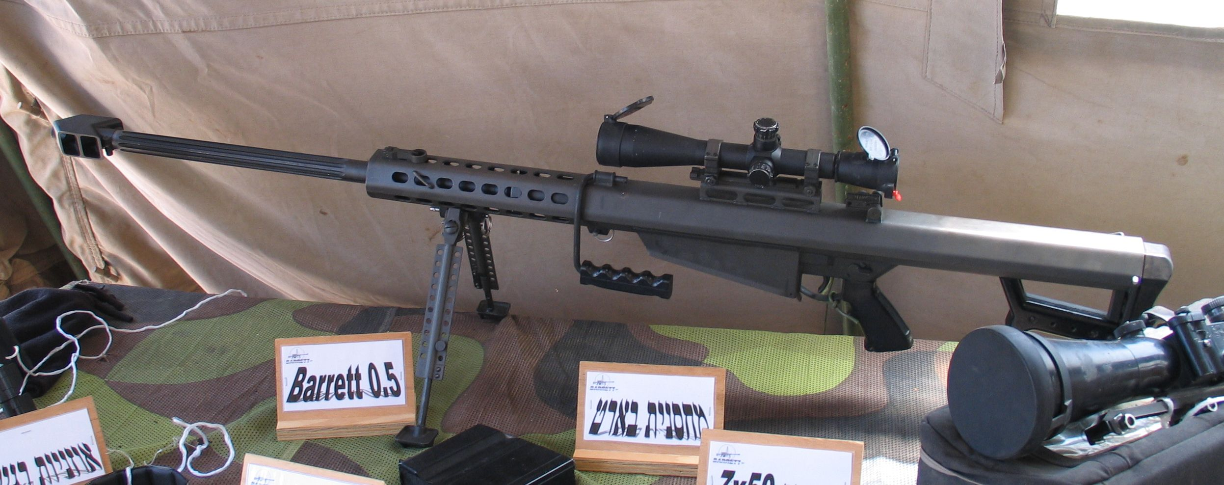 Barrett M82A1 .50 caliber rifle. Independence Day exhibition at Yad la-Shiryon Museum, Latrun, Israel.